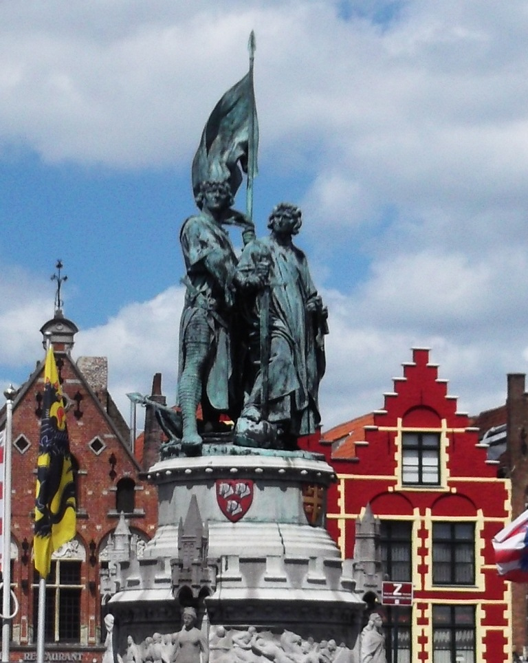 The monument on Market square